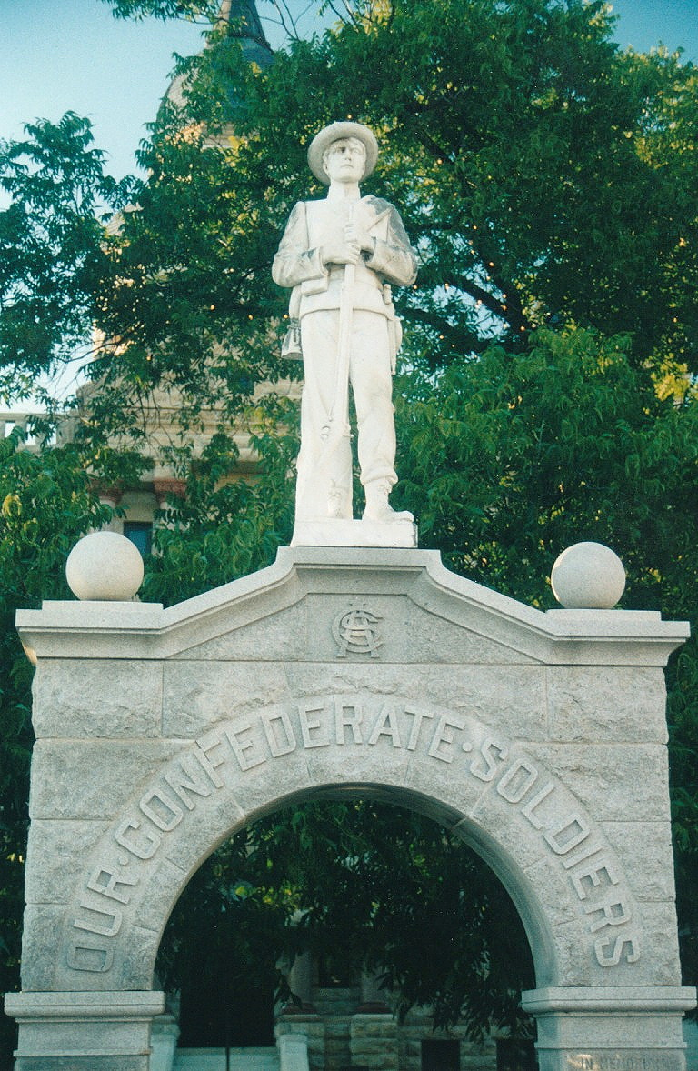 CSA monument, Denton, Texas